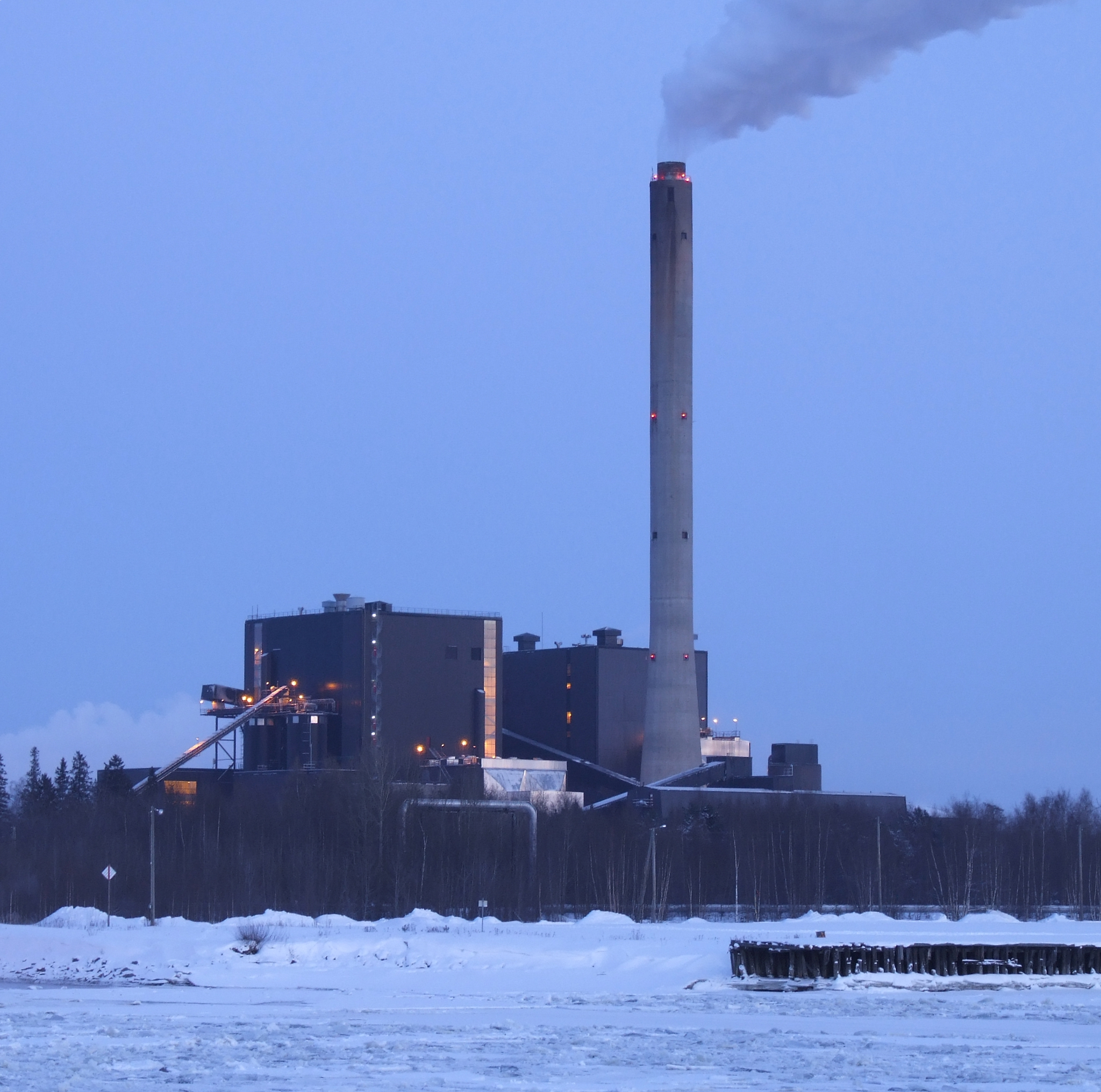 Toppila Peat-Fired Power Plant